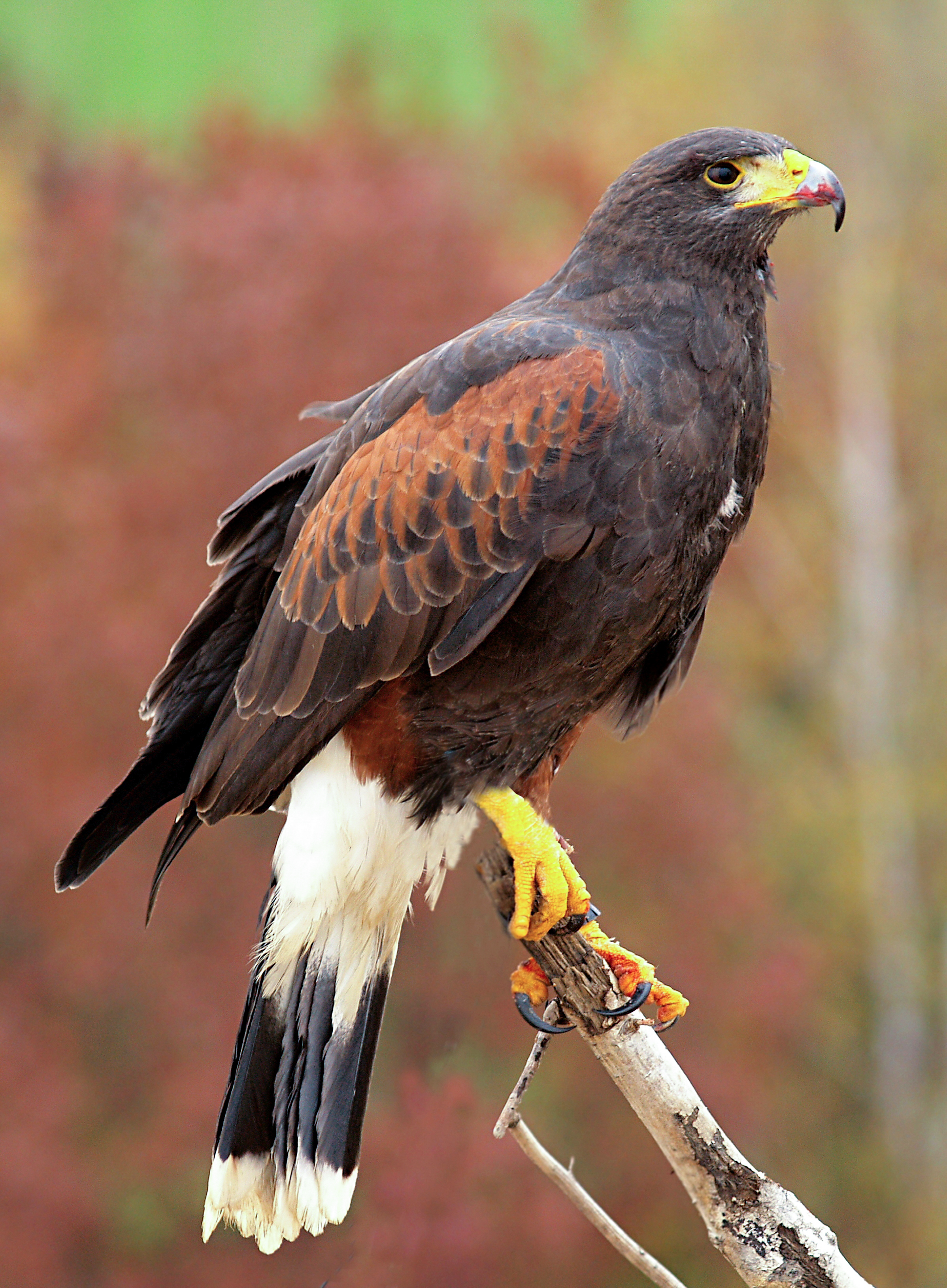 Harris's hawk